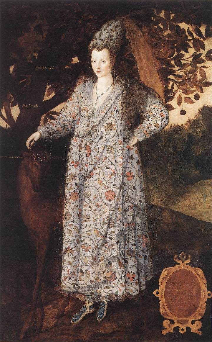 The costume is modeled after "Virgo Persica" (the dress of Persian maiden) in Boissard's Habitus Variarum Orbis Gentium.